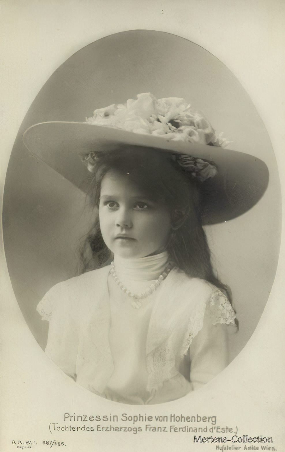 Princess Sophie of Hohenberg